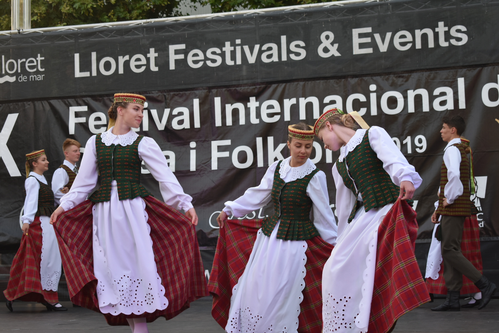 Lithuanian Folk dances in a Festival in Catalonia. This photo has been taken in the country: Spain